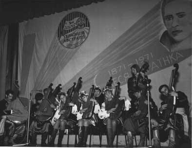 Khotkevych Бandurist Еnsemble from Sydney. Australia, 1971 Photo taken by George Mishalow, - my Father.